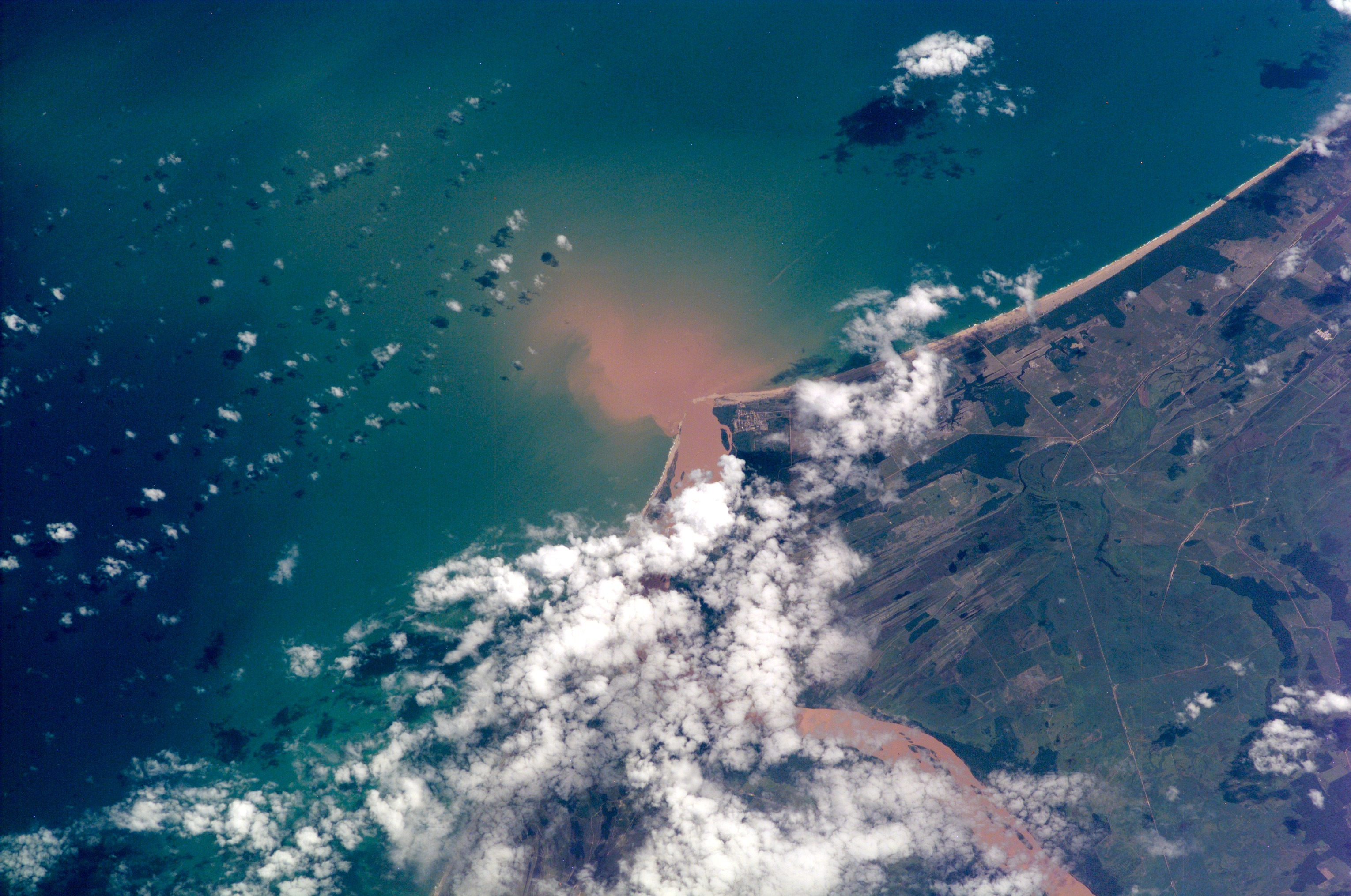 Delta of Rio Doce in Atlântico ocean.